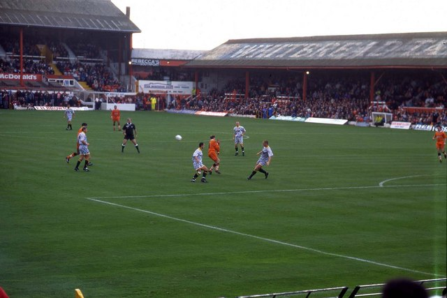 The Main stand at Blackpool FC